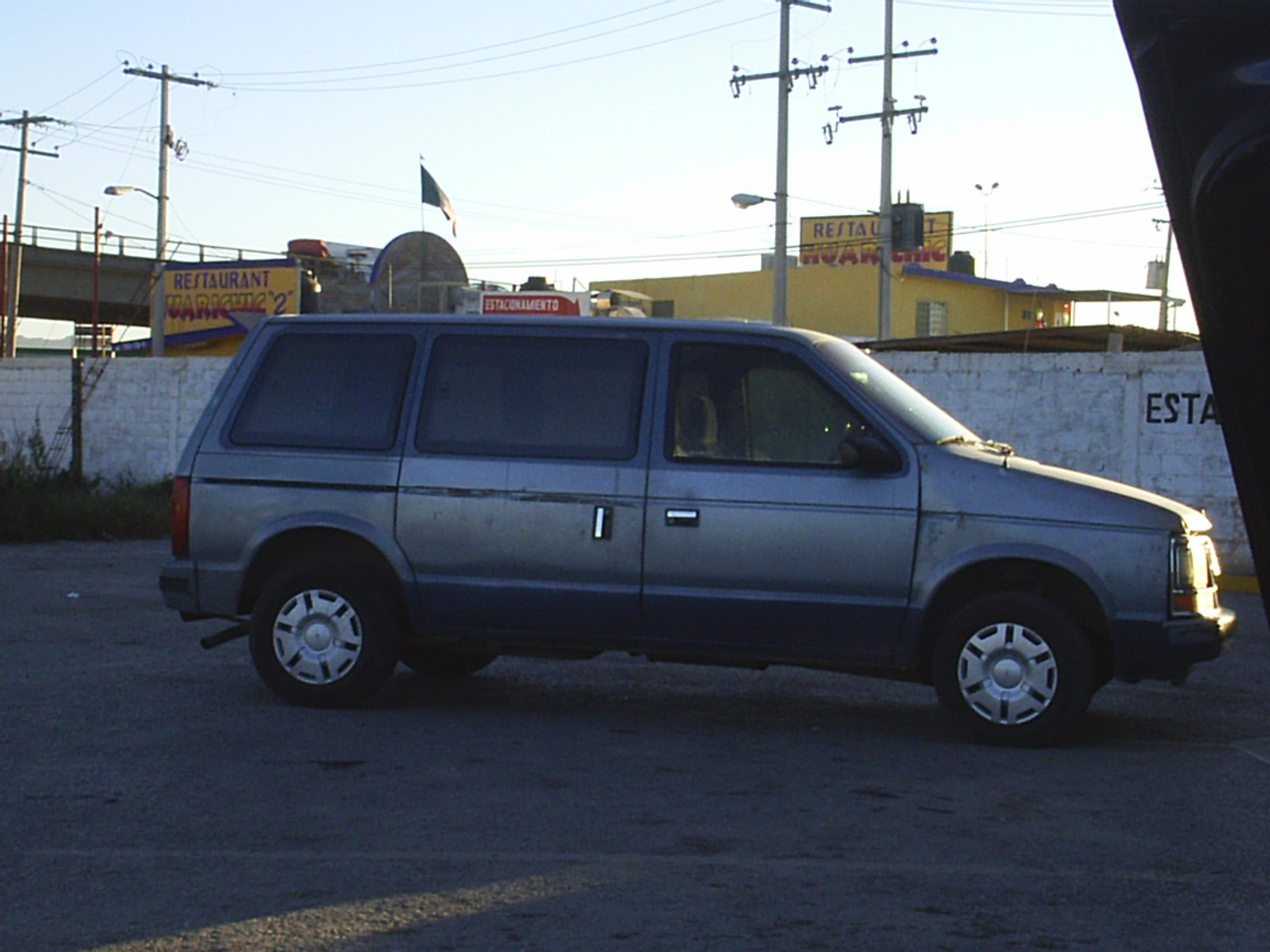 Voyager Mk II Minivan. Date:Dec 22,06 Source:Own Work Author:Alx 91 from en.wikipedia